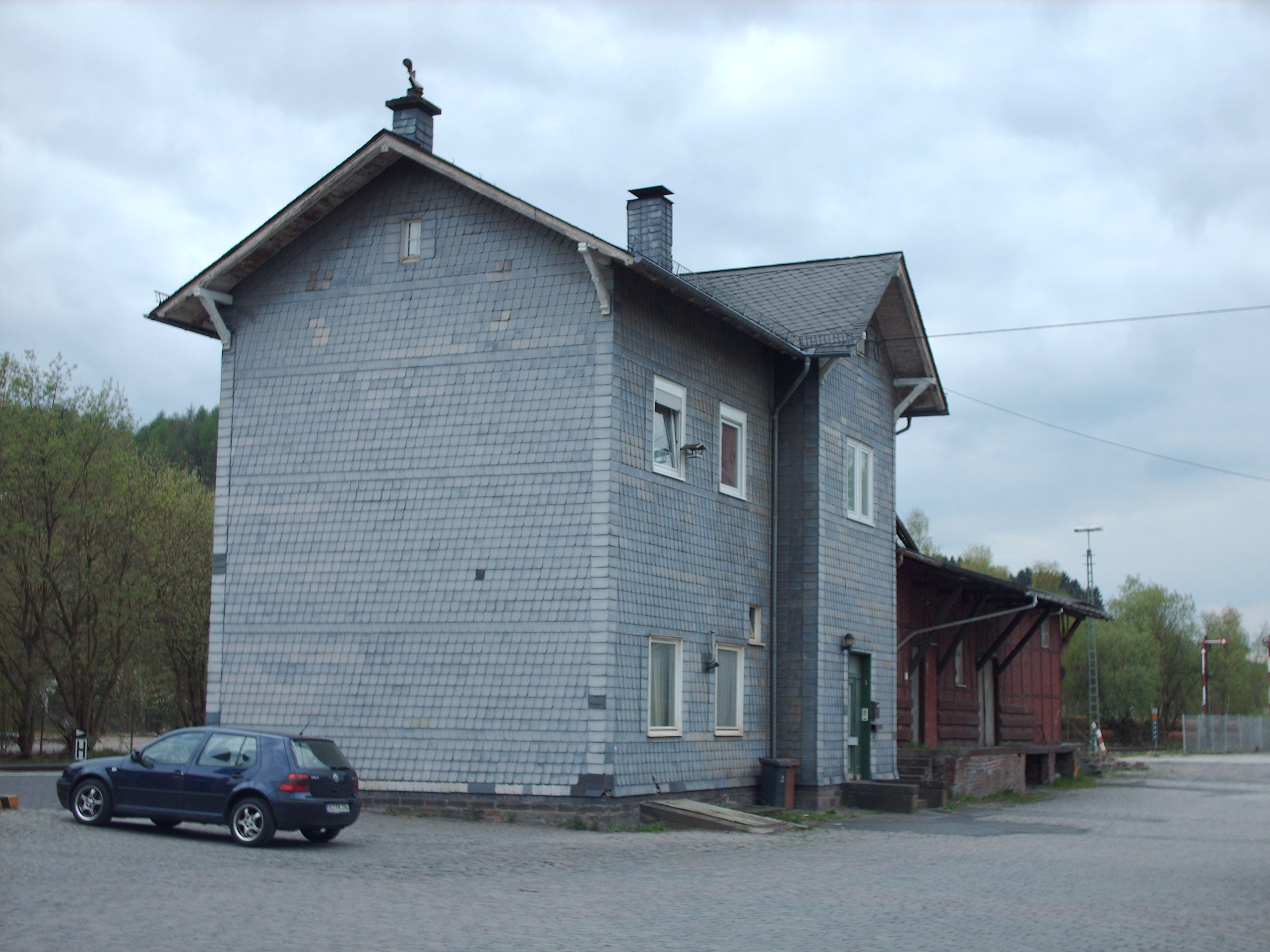 Ferndorf station, Kreuztal, Germany check usage